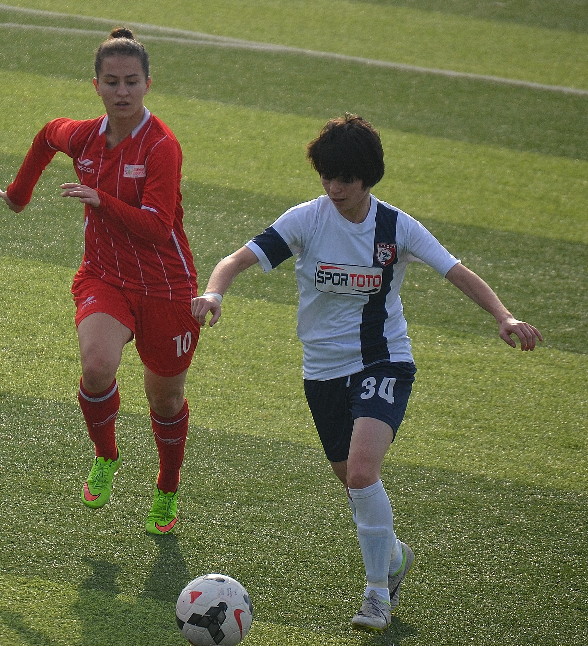 Fatma Serdar for İlkadım Belediyespor in the away match vs Ataşehir Belediyespor (2014-15 season)